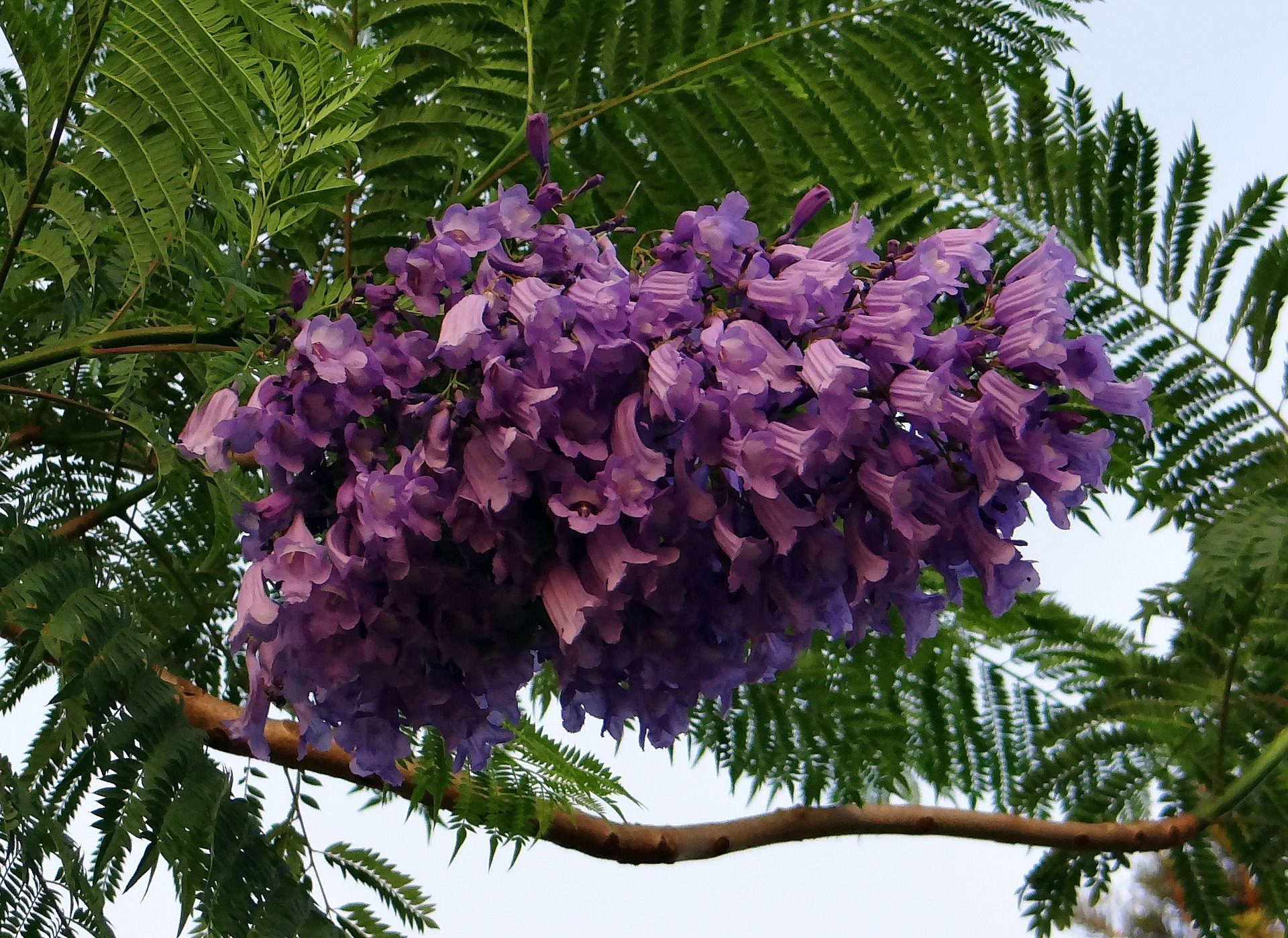 Flowers of Jacaranda mimosifolia (also known as jacaranda, blue jacaranda, black poui or the fern tree).